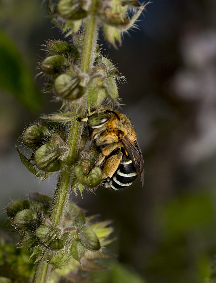 Female Amegilla cingulata clinging to plant stem.